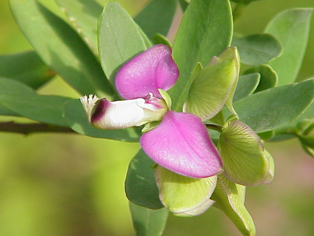 Species: Polygala myrtifolia Family: Polygalaceae Image No. 1